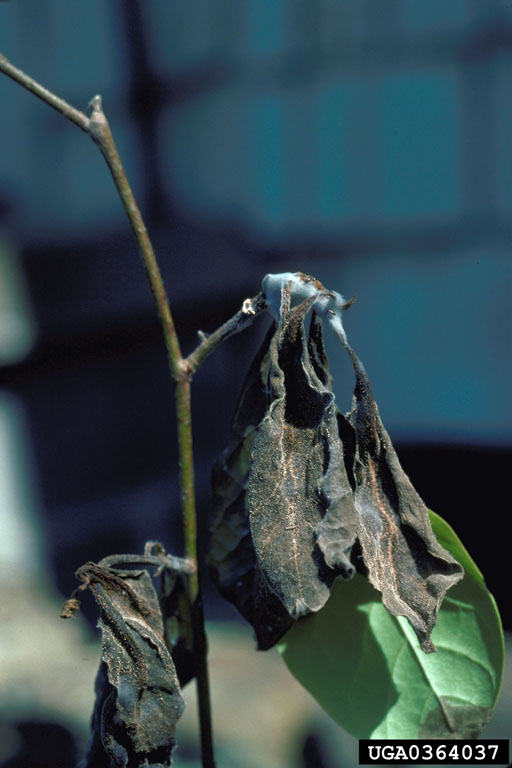 Colletotrichum acutatum Leaf blight symptoms